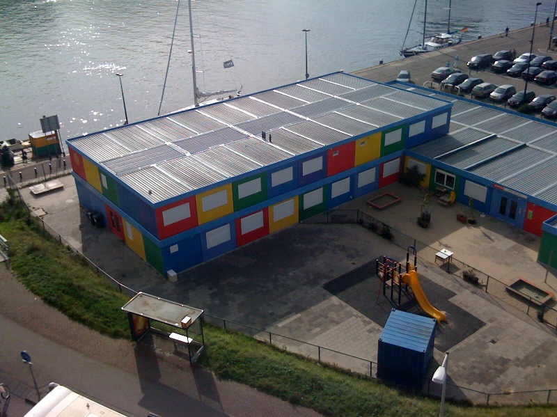 Small school in Amsterdam called "De Kleine Kapitein"